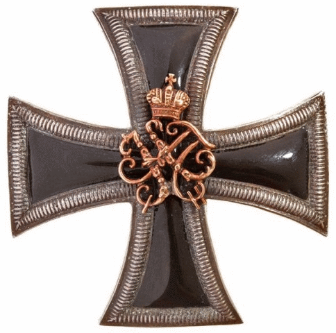 Badge – of the His majesty Lifeguard Jaeger Regiment.